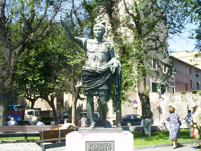 Photo of a bronze copy of the famous statue Augustus of Prima Porta near La Playa de San Lorenzo in Gijón, Asturias, Spain. Photo by Atilim Gunes Baydin, August 24, 2003.